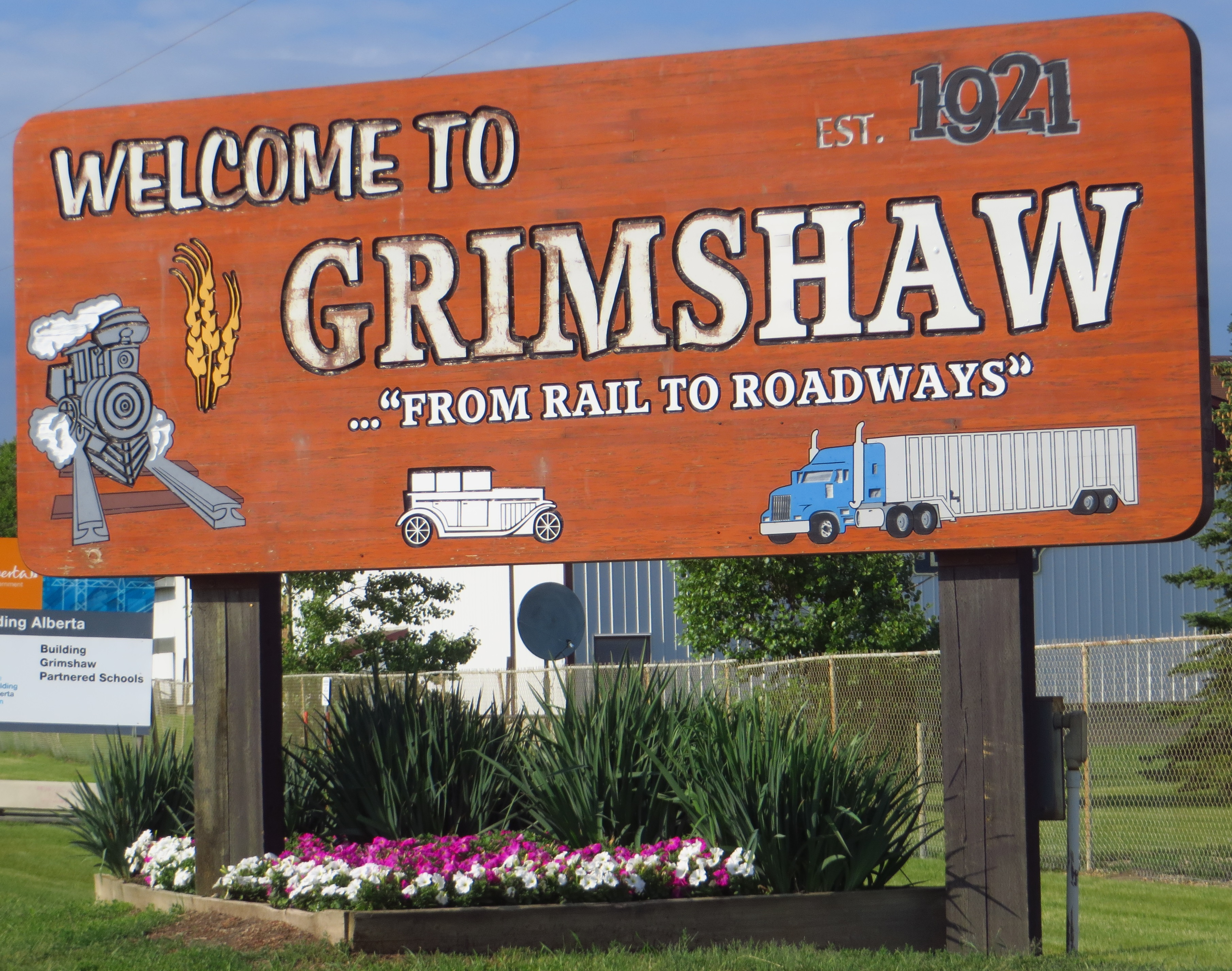 A sign welcoming drivers to the Town of Grimshaw